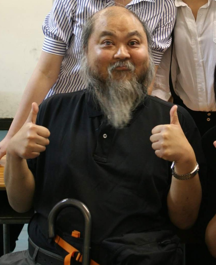 Photo taken before Ho Wai Lung's (veteran deceased actor) sharing in New Asia Middle School of Hong Kong in 2011.